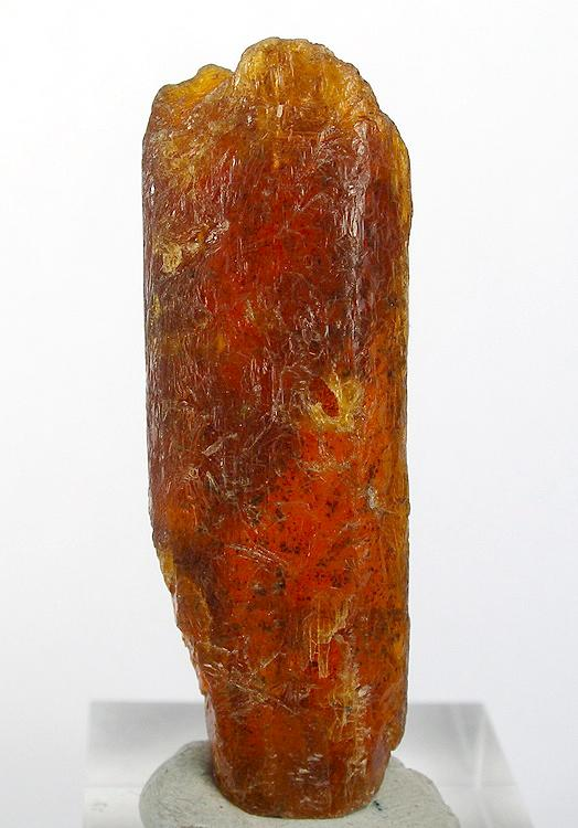 Kyanite Locality: Nani, Loliondo, Arusha Region, Tanzania (Locality at ) Size: 5.0 x 1.7 x 0.9 cm. A beautiful, gemmy, rich golden-orange kyanite crystal from a new find in Tanzania, that was debuted at the 2009 Tucson Show. This twinned, sharply crystallized crystal is complete-all-around. Golden gemmy kyanite. Highly unusual and desirable. Weighs 15 grams.